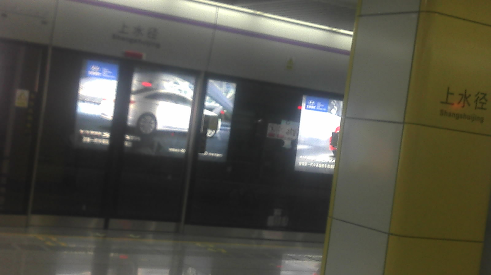 This photo was taken at September 30, 2011 at Shangshuijing Station.